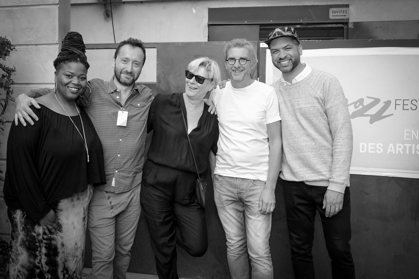 Jason Moran, Franck Marchal, Pierrette Devineau, Sebastian Danchin and Lisa E. HARRIS on backstage during the 21st Paris Jazz Festival 2015 at Parc Floral in Paris, France on July 5 2015. Photo by Stephane Morsli